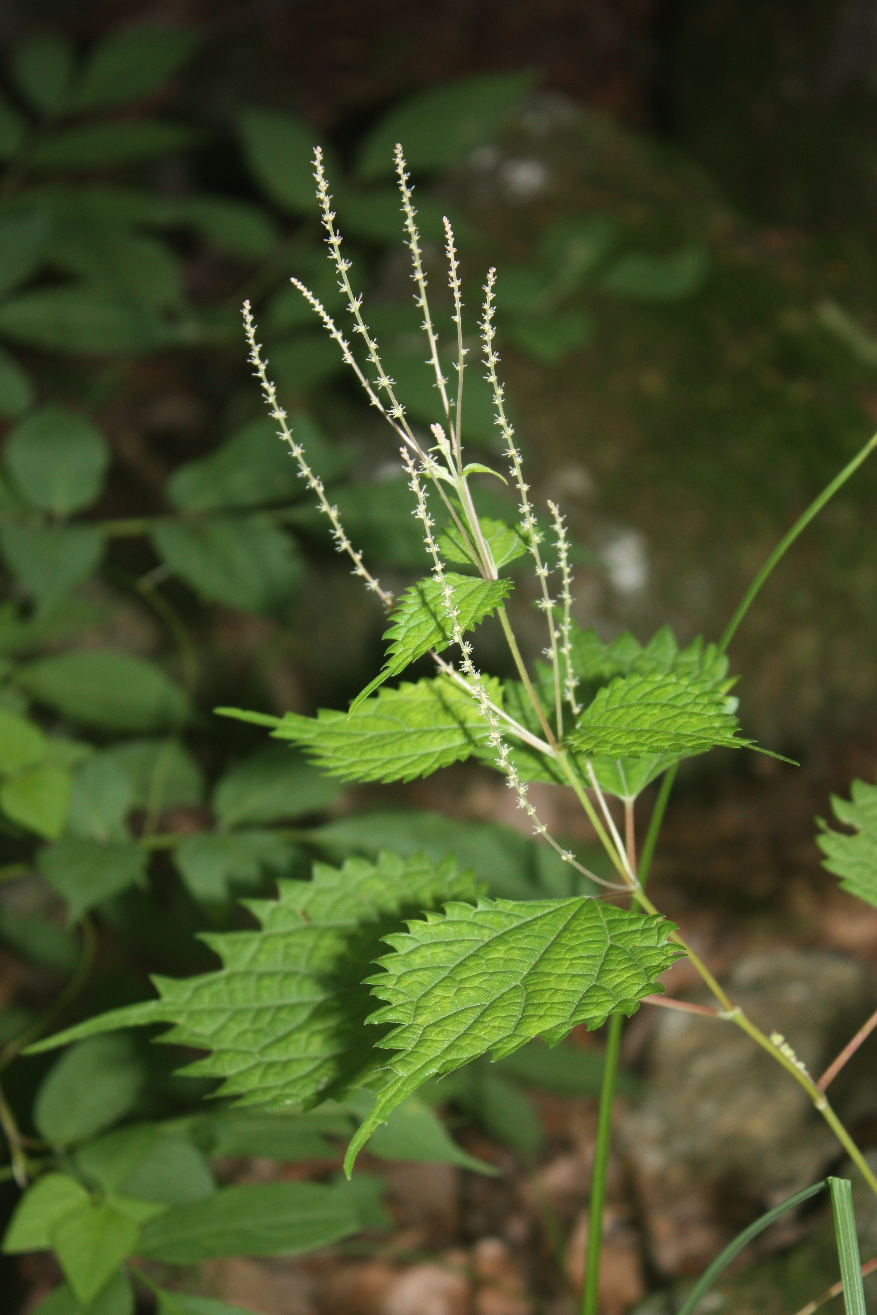 Boehmeria longispica, Baemsagol valley, Jirisan, South Korea